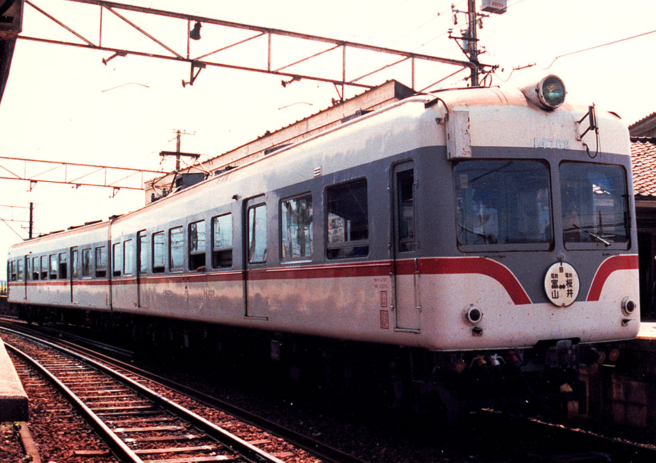 Toyama Chiho Railway 14780 series EMU at Terada Station